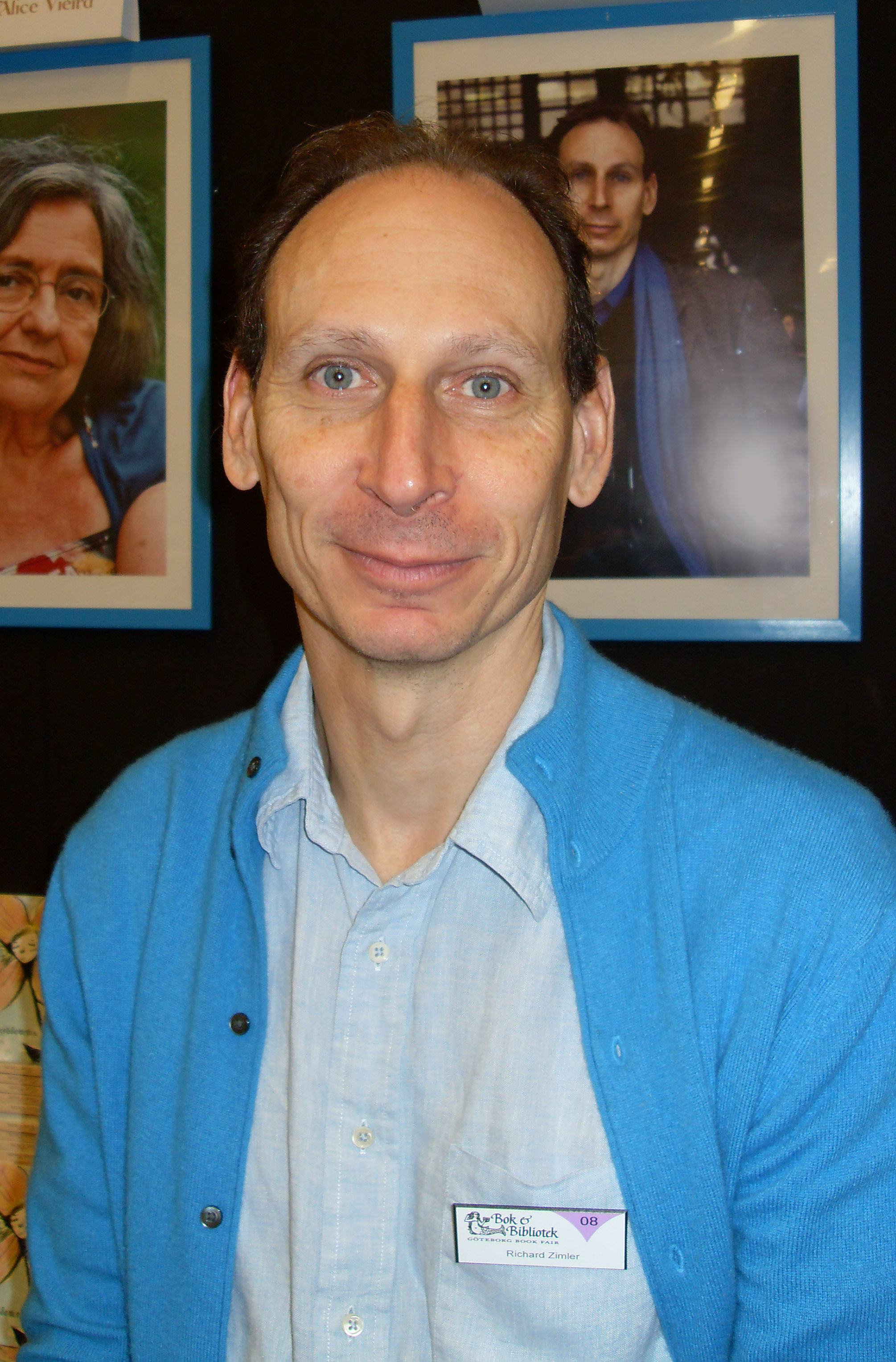 American author Richard Zimler at gothenburg book fair 2008